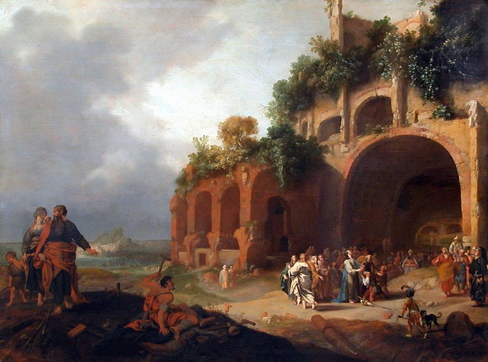 Jésus guérissant un sourd-muet/Jesus healing a deaf-mute